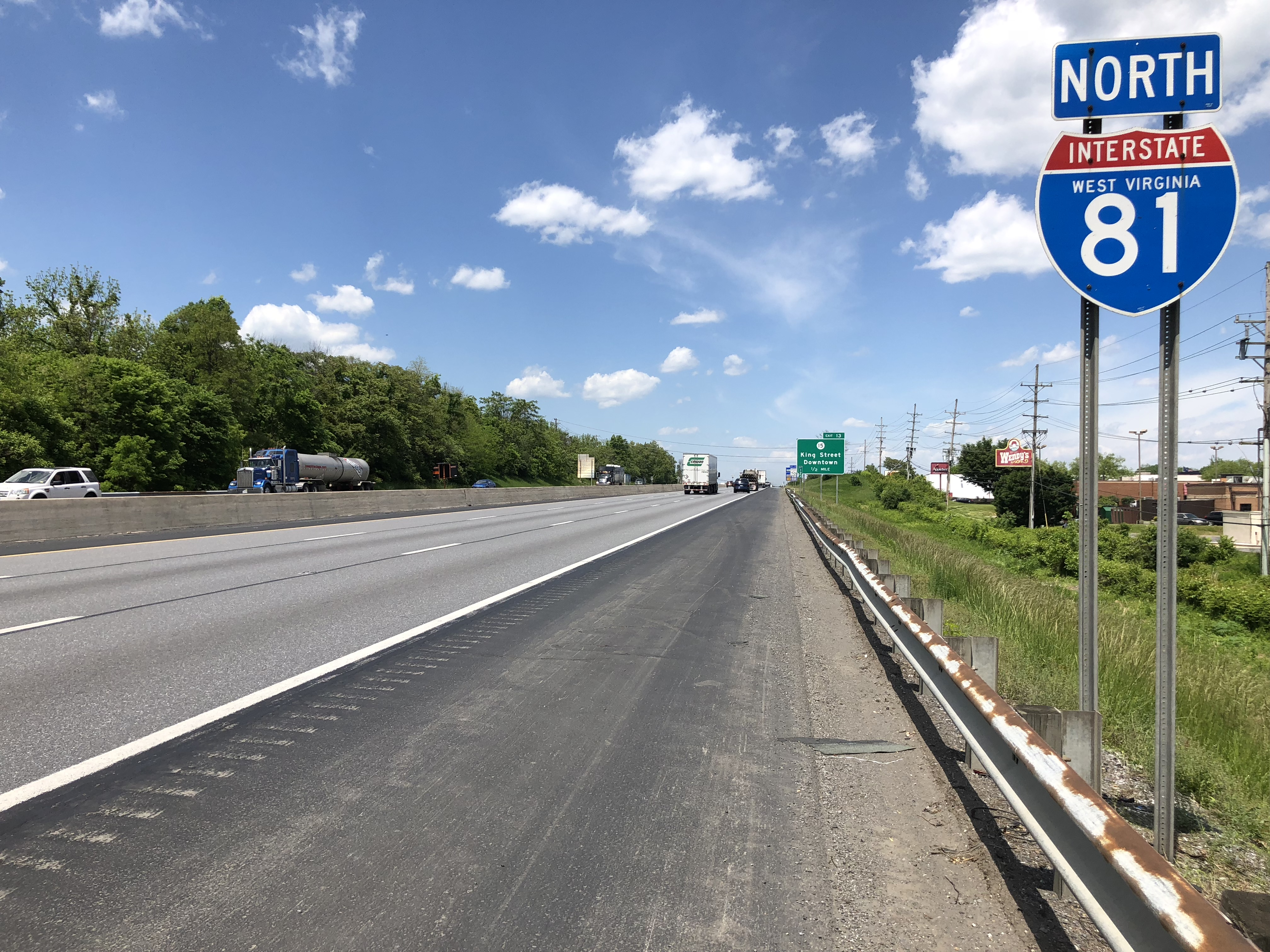 View north along Interstate 81 just north of Exit 12 in Martinsburg, Berkeley County, West Virginia